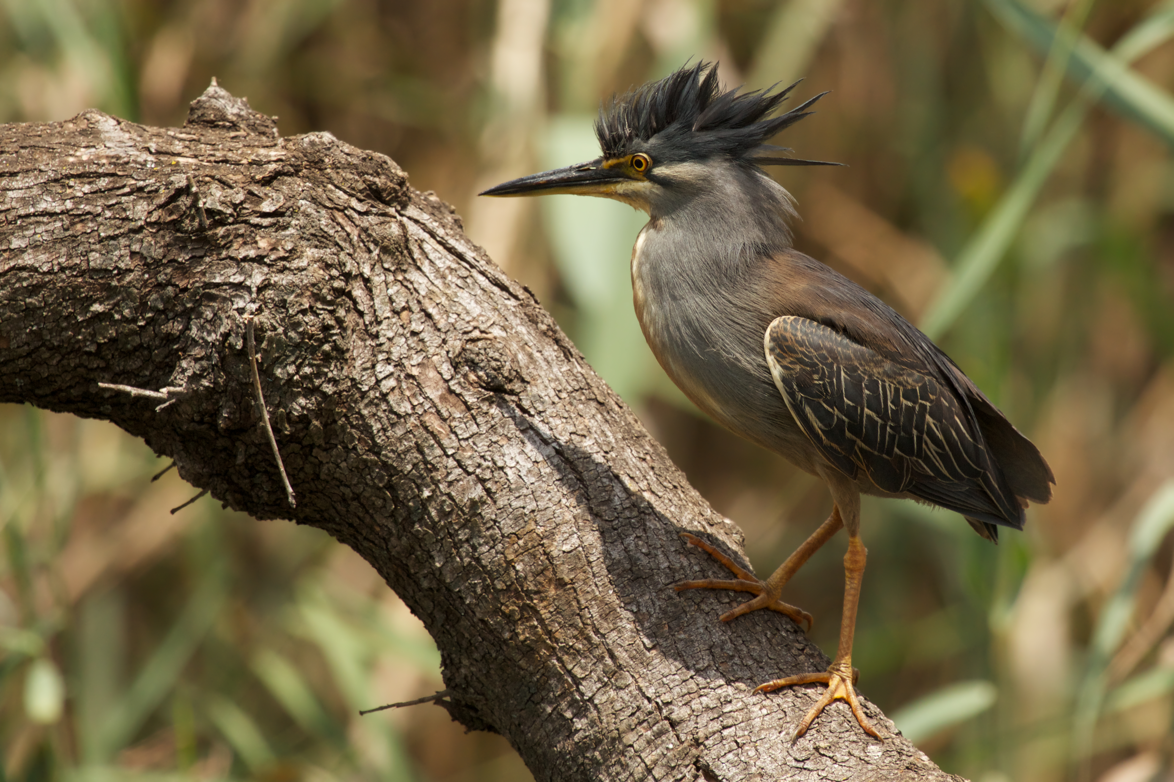 Striated Heron (Butorides striata, probable subspecies atricapilla) taken at Austin Roberts Bird Sanctuary